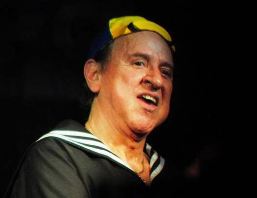 Powered by Nikon D3000 + CPC Phase 2 CCT 75-200mm ƒ/4.5